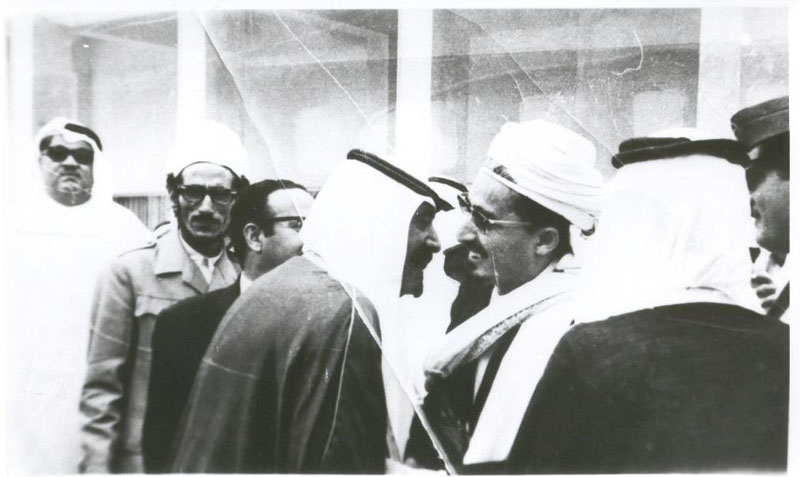 Patriarch of Hashid tribal confederation with than Prince abdulahh bin Abdulaziz of Saudi Arabia in 1973